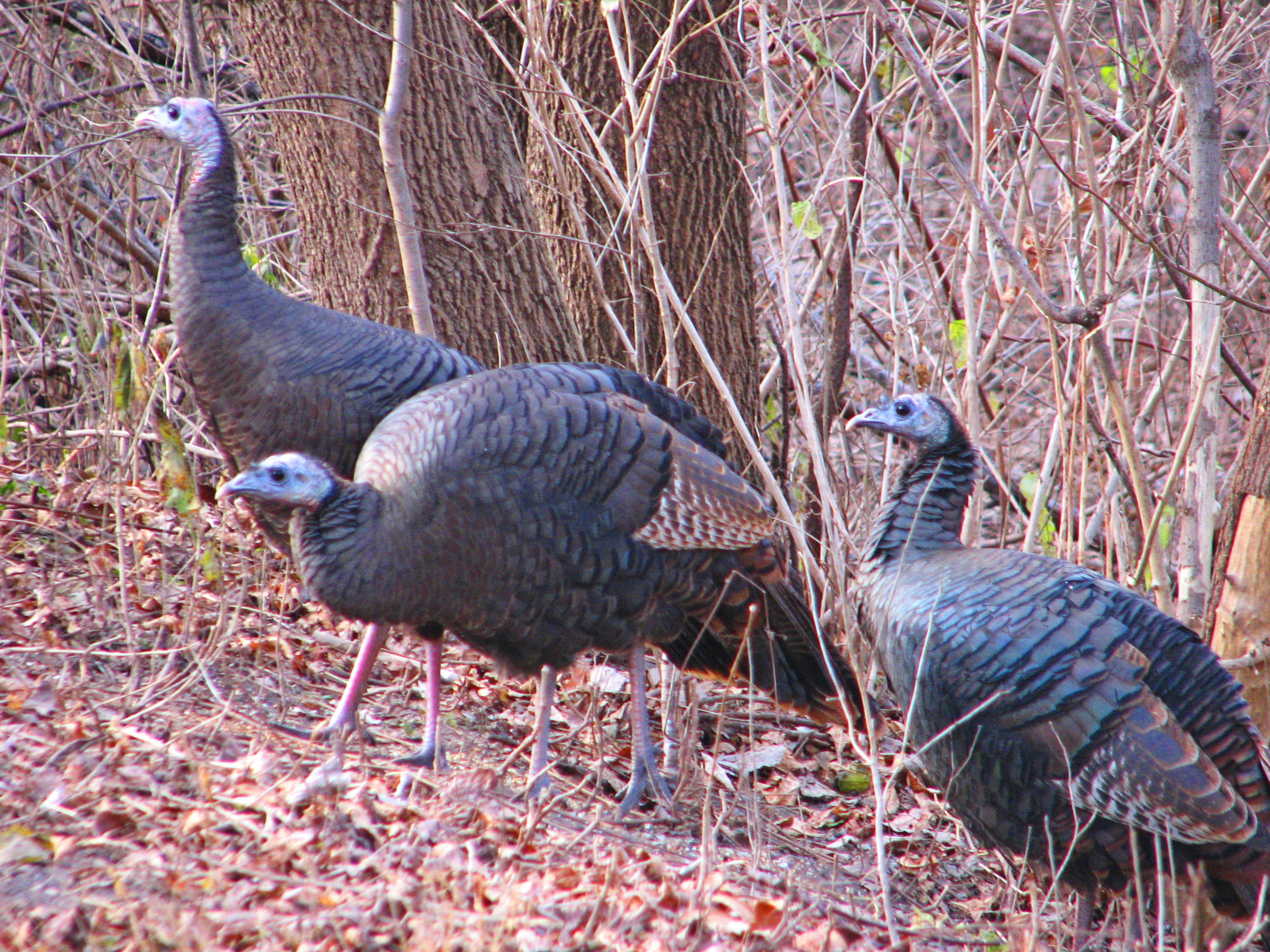 Female Wild Turkeys (Meleagris gallopavo) taken near Rideau River, Ottawa, Ontario, Canada